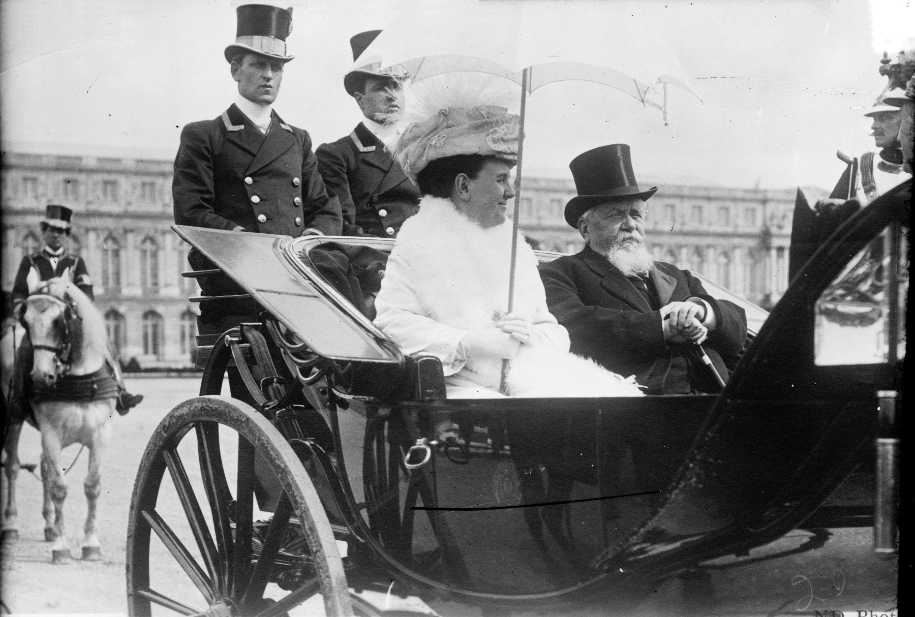 Queen of Holland, President Fallières of France